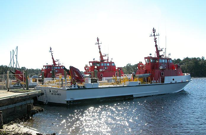 120 ft Drone Recovery Ships of the U.S. Air Force, operated by the 82nd Aerial Targets Squadron, 53rd Weapons Evaluation Group, 53rd Wing (ACC). 82nd Aerial Targets Squadron 53 is located at Tyndall Air Force Base (Flordia) with a detachmant at Holloman Air Force Base (New Mexico). The ships of the so called "Tyndall Navy" is stationed at Tyndall Air Force Base.